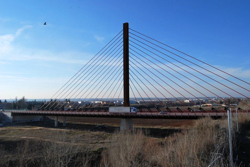 Arriaca Bridge from CM-10 Highway in Guadalajara, Spain, over Henares River.